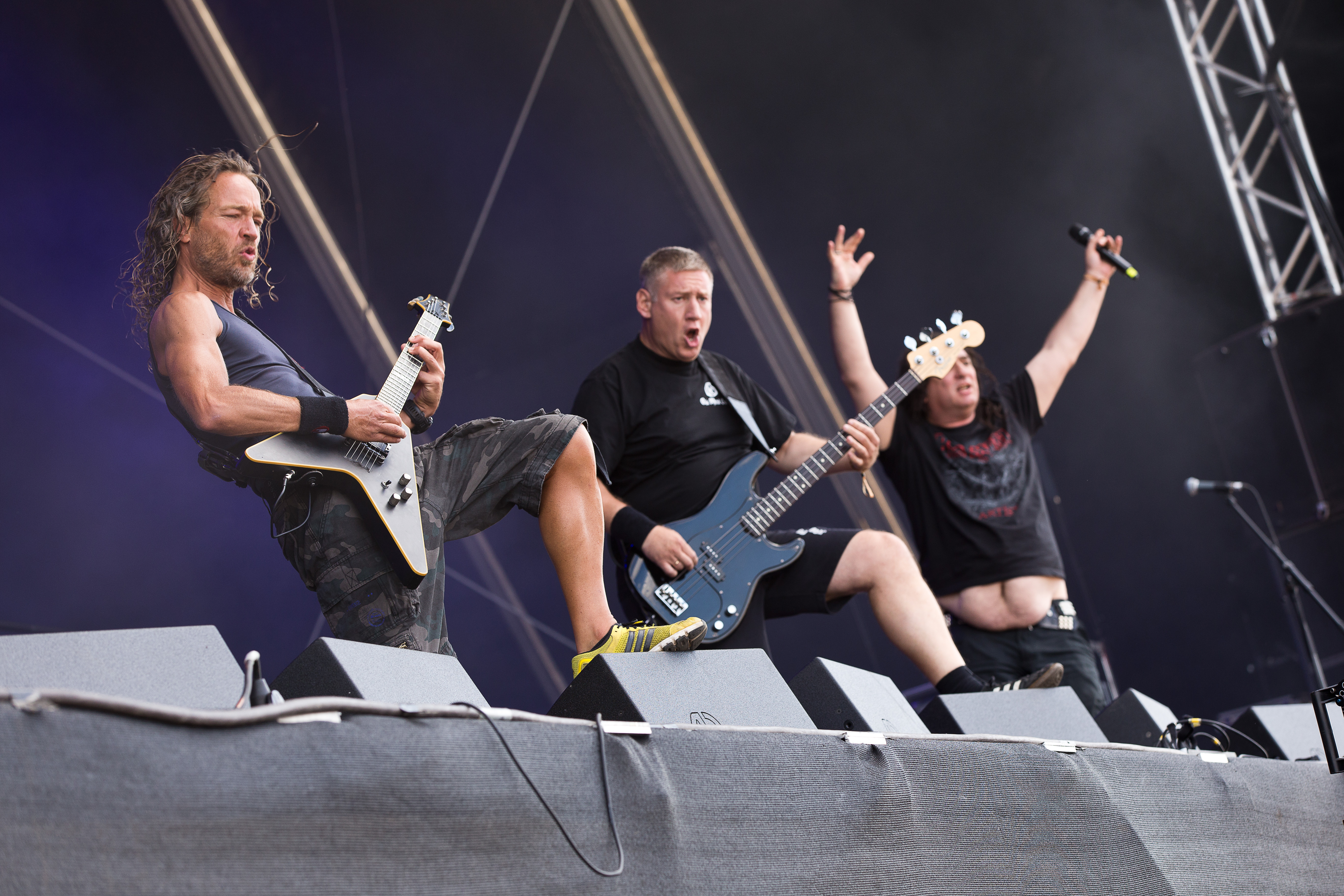 The German thrash metal band Tankard at the Rockharz Open Air 2016 in Ballenstedt/Germany.